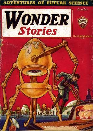 Cover of the pulp magazine Wonder Stories (October 1931, vol. 3, no. 5) featuring "Between Dimensions" by J. E. Keith.